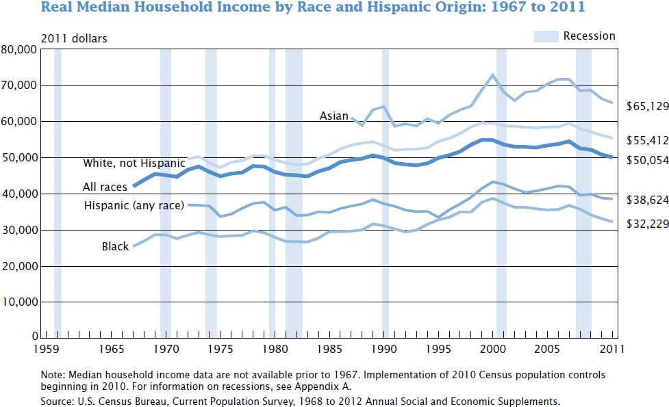 Real Median Household Income by Race and Hispanic Origin: 1967 to 2011